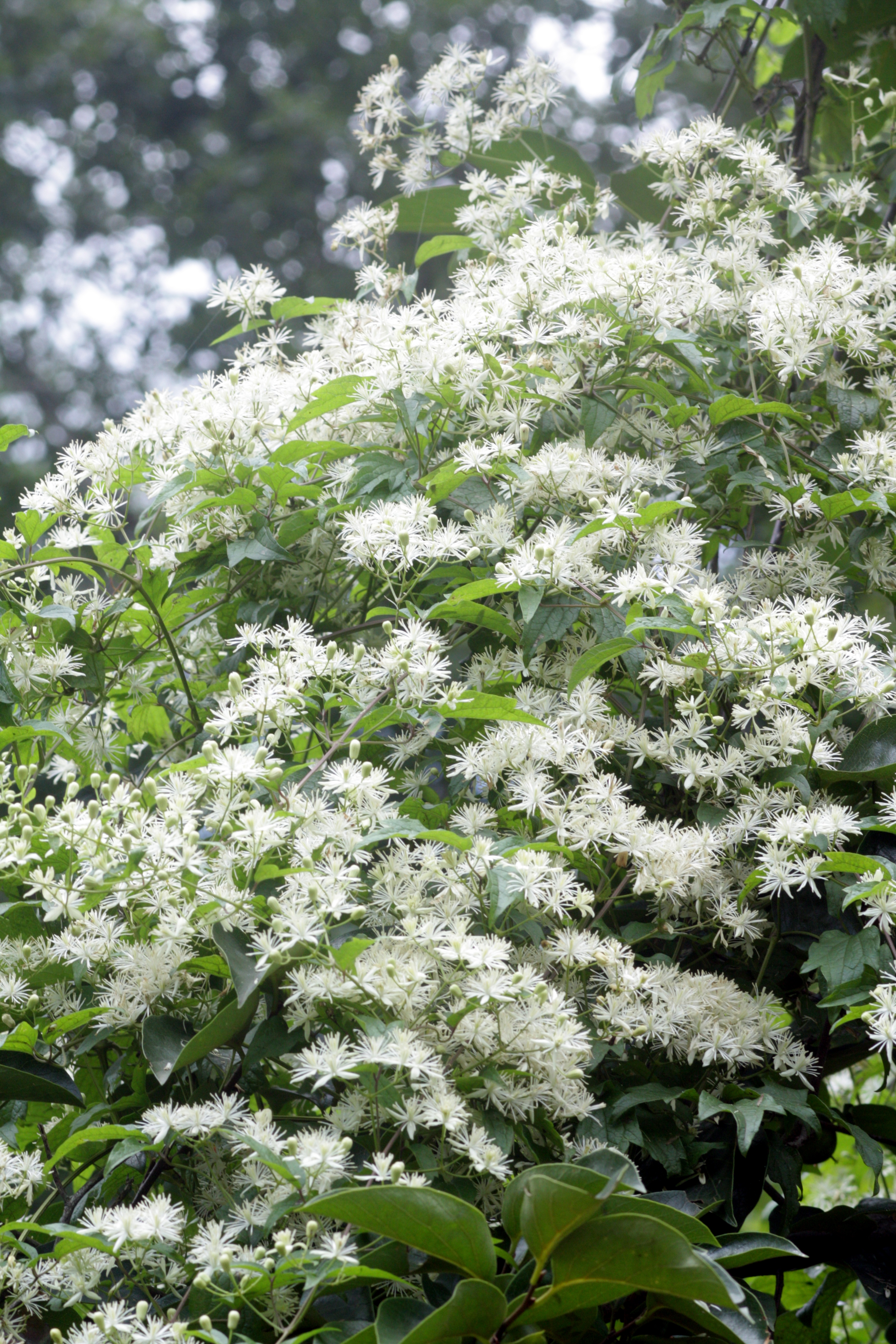 Clematis apiifolia